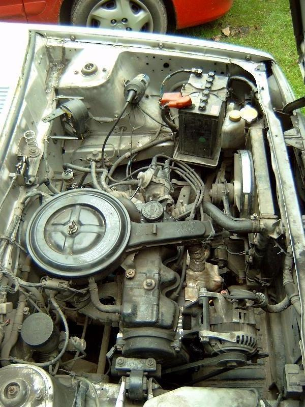 MA10S engine from a '90 Nissan Micra (March 2005)